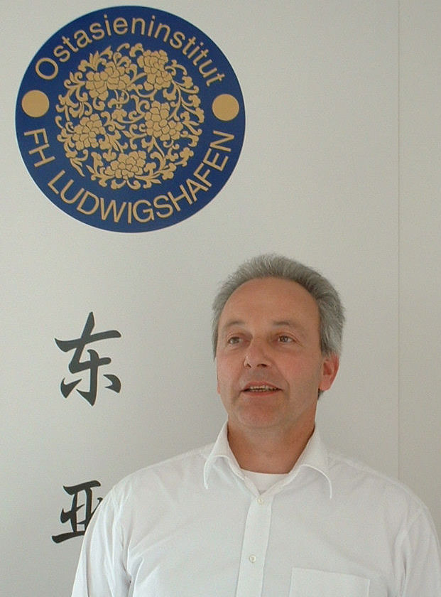 Description: the German Sinologist Jörg-Meinhard Rudolph Author: own photography --Zhou Yi 11:23, 4 January 2006 (UTC)